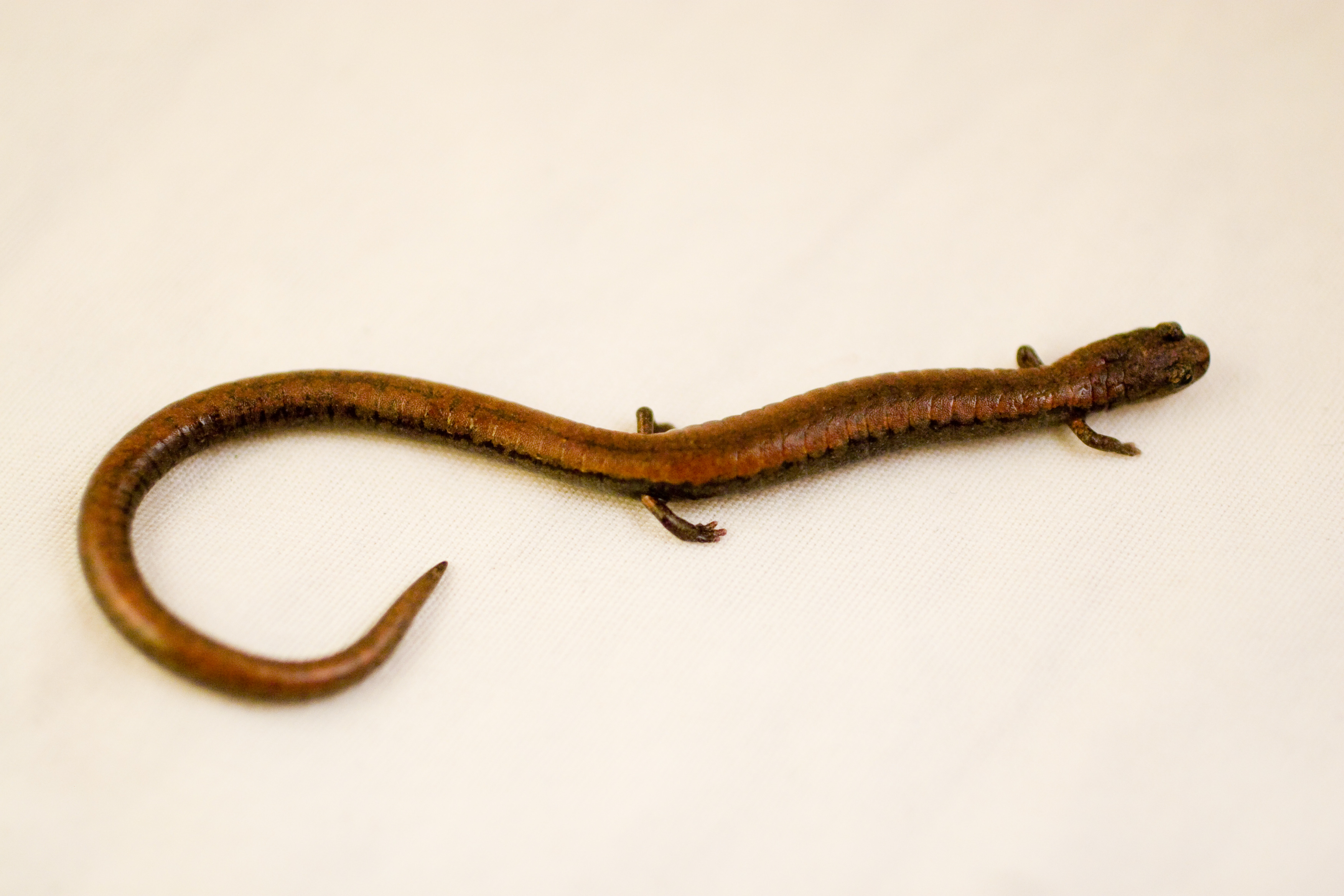 Batrachoseps gavilanensis - Gabilan Mountains Slender Salamandera. The photo taken in Santa Cruz California by Julia Larson.